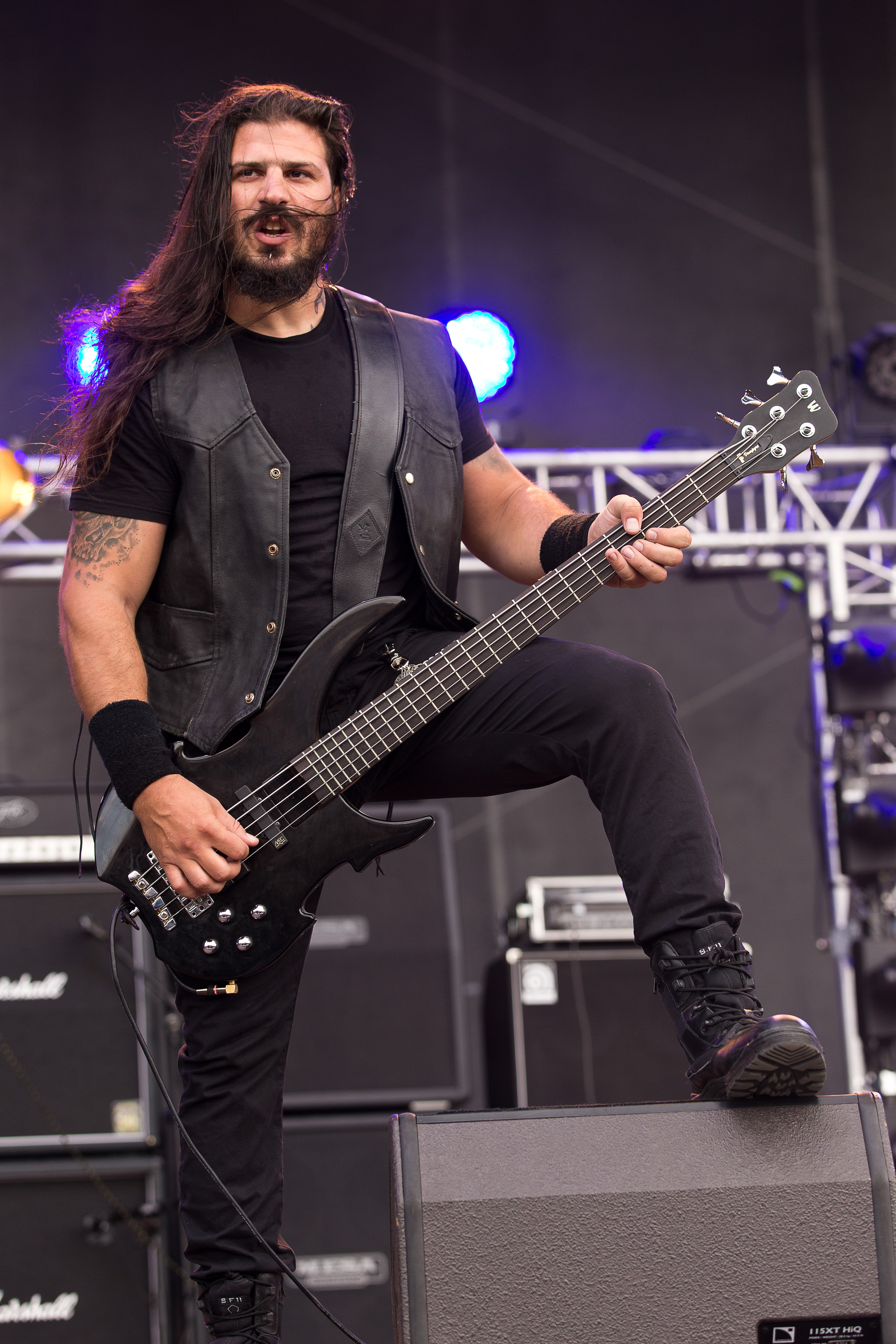 The Greek metal band Rotting Christ at the Party.San Open Air 2015 in Obermehler-Schlotheim/Germany.